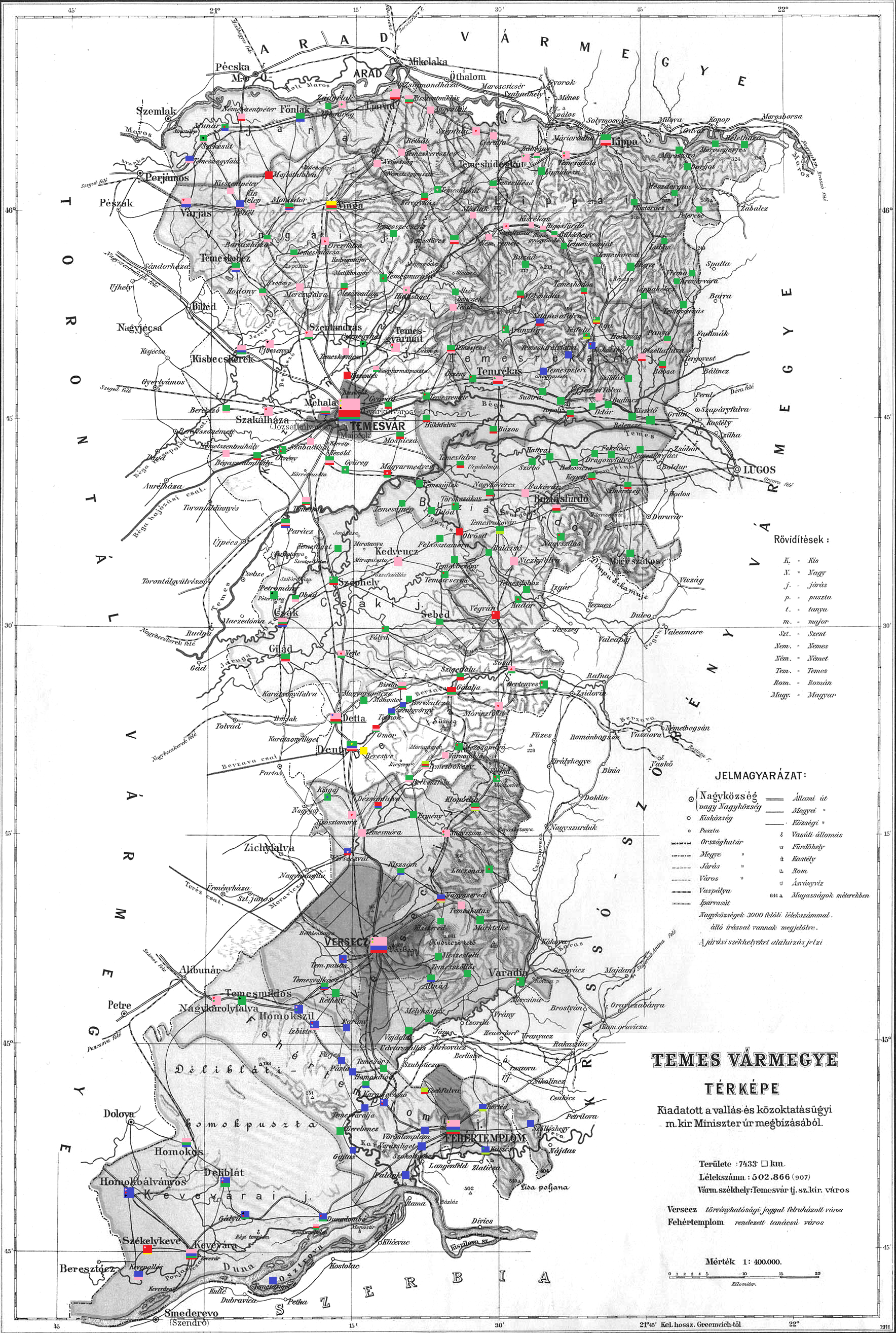 Ethnic map of the county (with data of the 1910 census). Key: dark green - Romanians; pink - Germans; dark blue - Serbs; red - Hungarians; light green - Czechs or Slovaks; light blue - Krashovani, yellow - Bulgarians; black - Roma. Coloured dots in plain rectangles imply the presence of smaller minority populations (generally more than 100 people or 10%). Multicoloured rectangles imply cities and villages with multi-ethnic populations with the order of the stripes following the ethnic composition of the settlement.